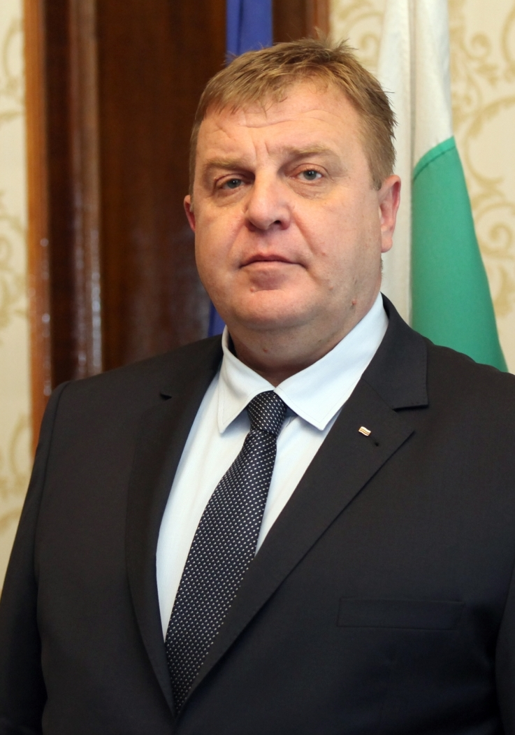 Krasimir Karakachanov, Deputy Prime Minister for Public Order and Security and Minister of Defence